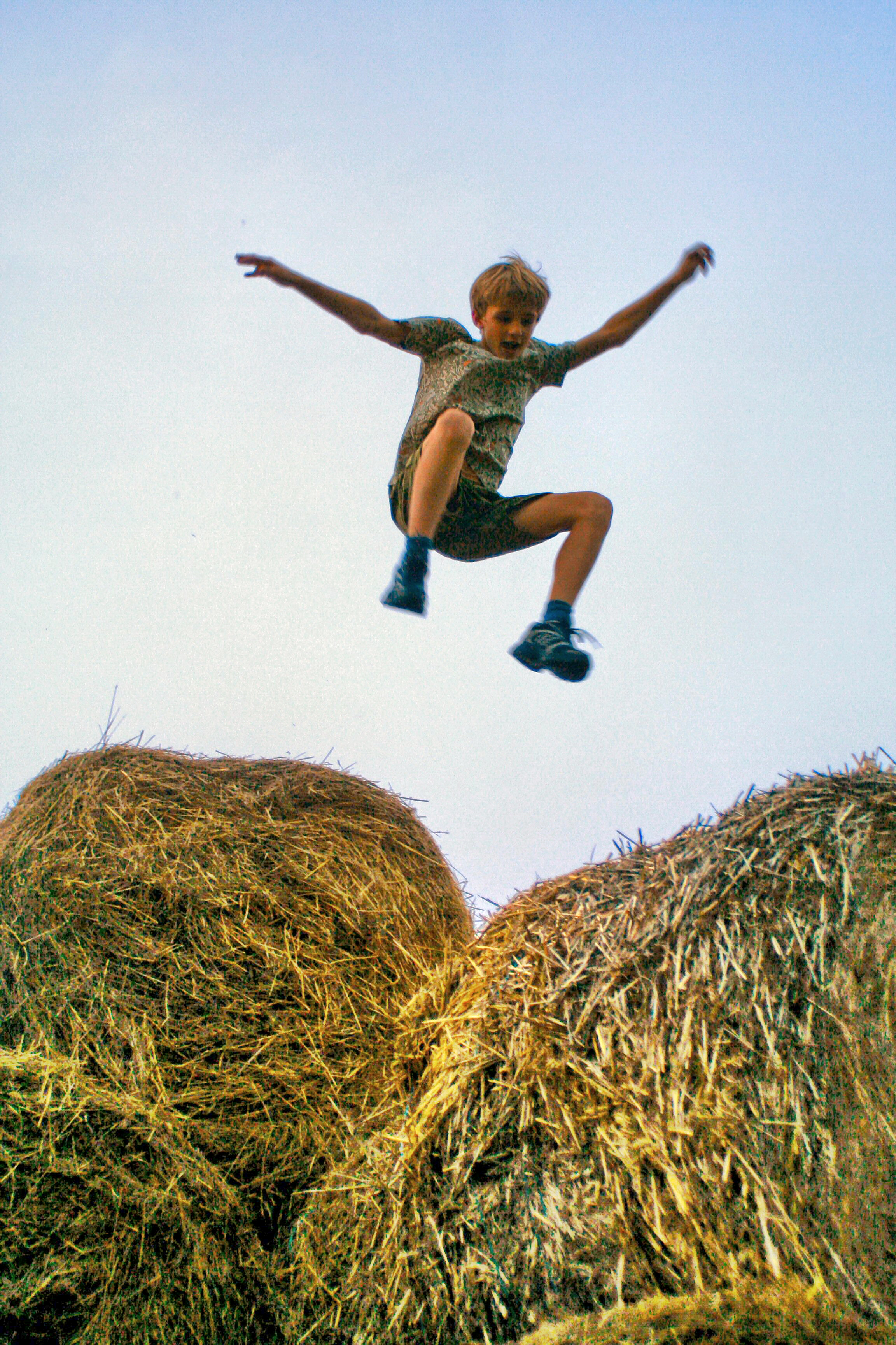 The boy Guy delighting in jumping from a straw bale at dusk